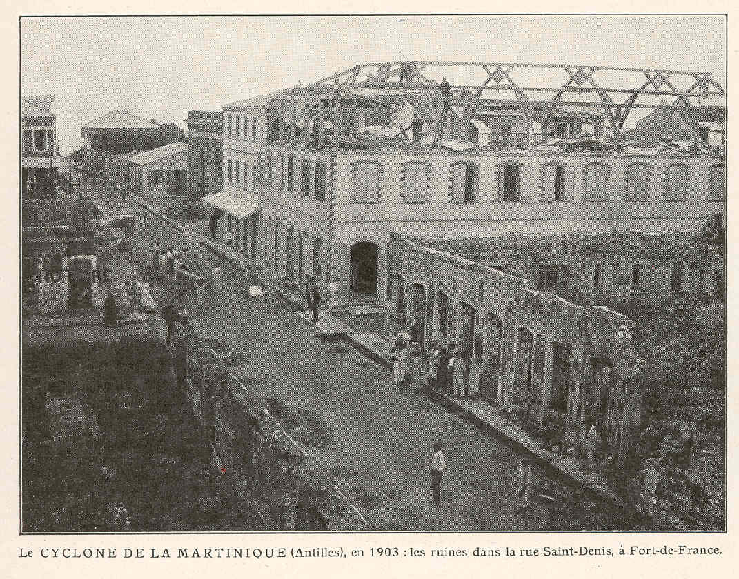 Subject: Fort de France (Martinique)--Hurricane, 1903, Storms--Fort de France (Martinique) Geographic Subject: Martinique--Fort de France Tag: Coasts